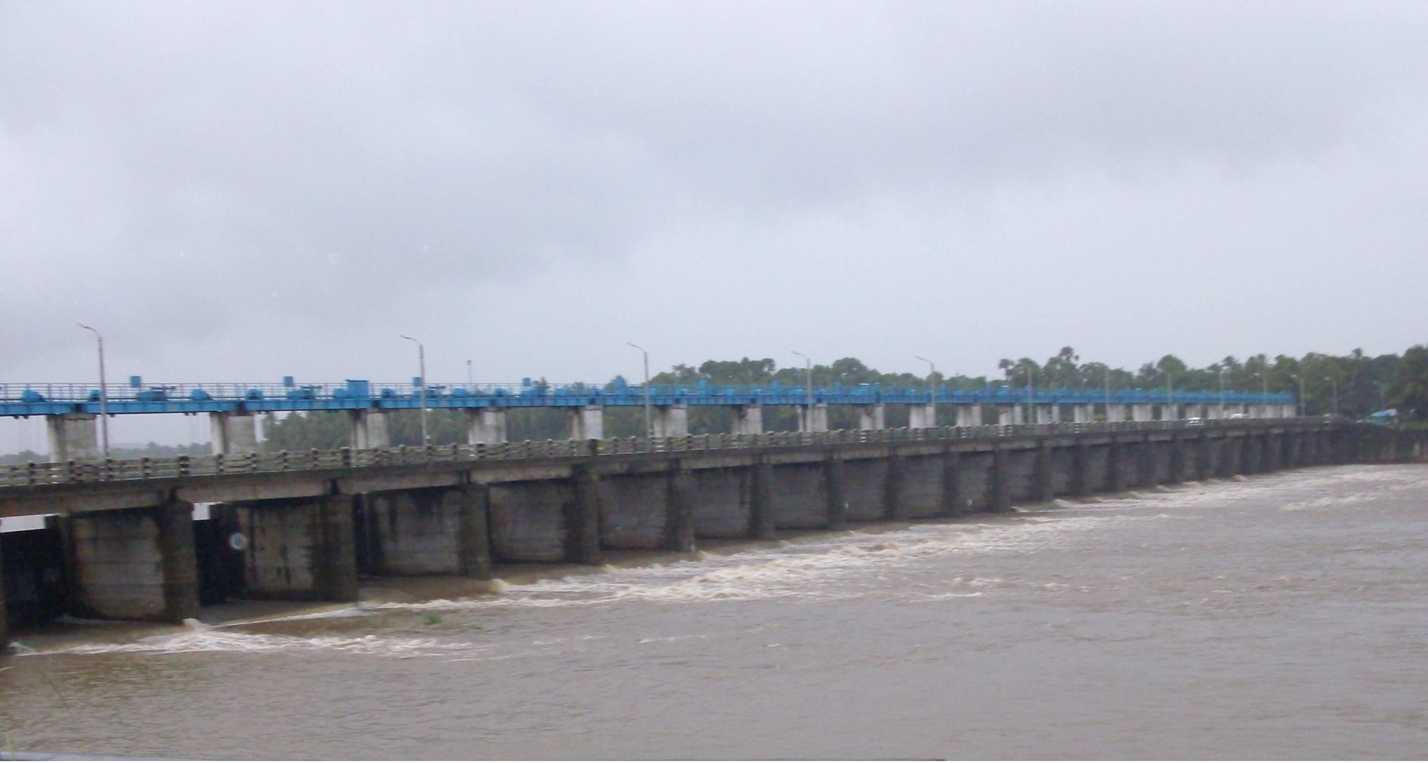 Nabeel Vattenad